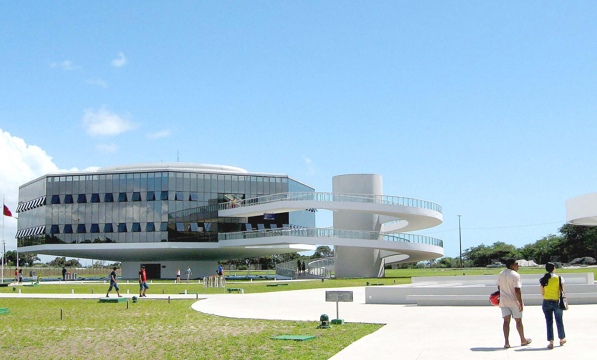 Science Station by Oscar Niemeyer.